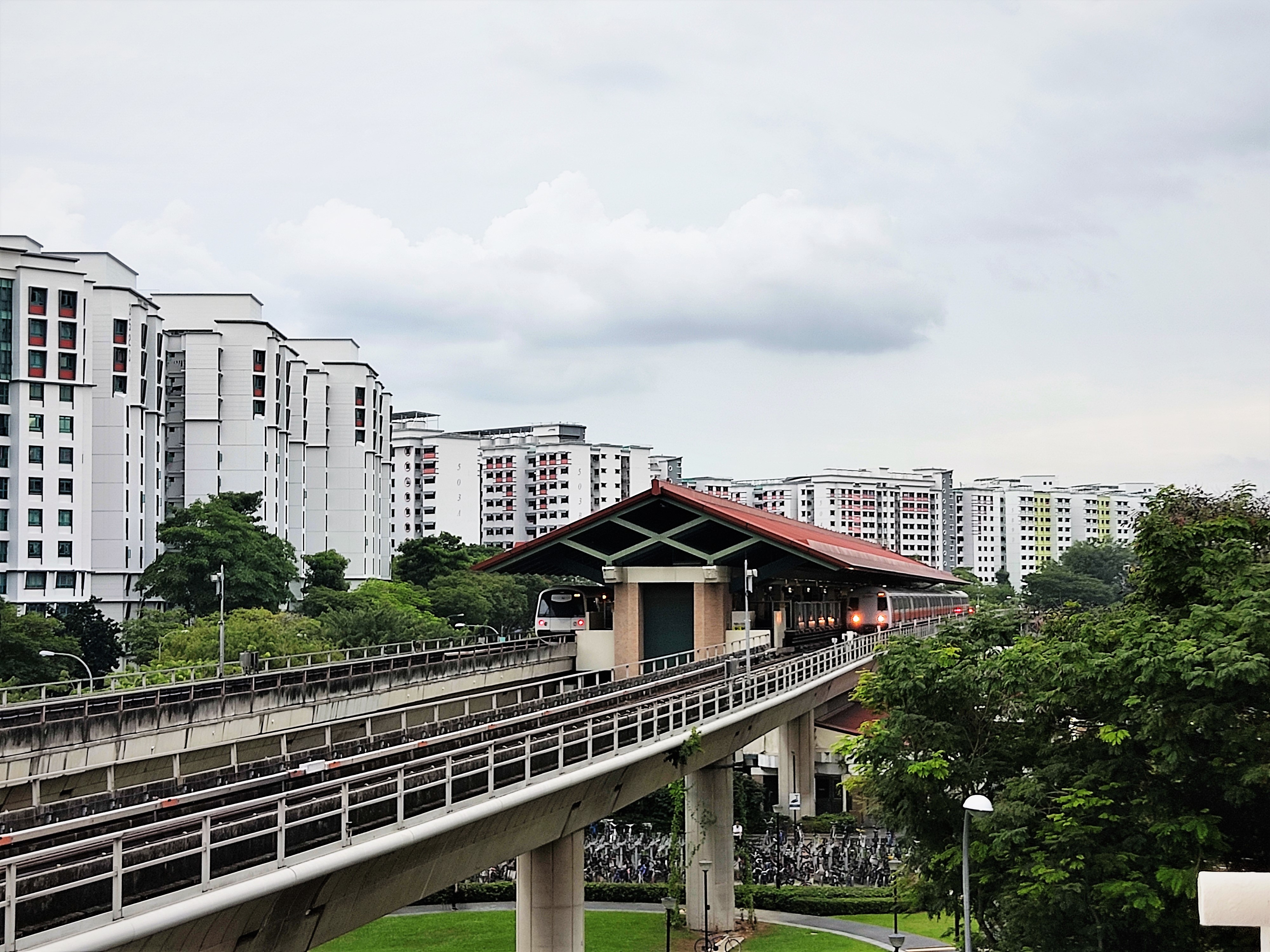 NS11 Sembawang MRT exterior